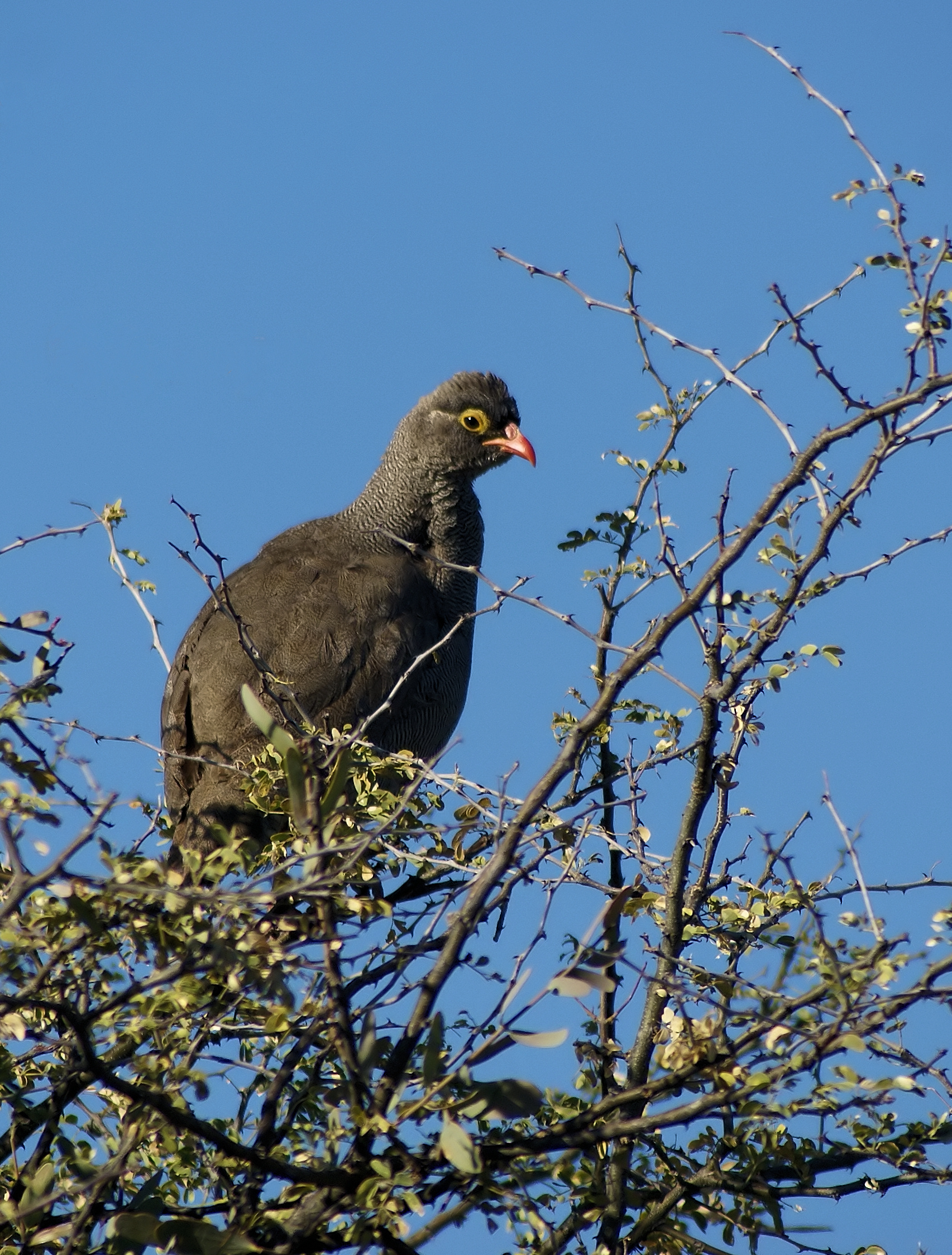 A Red-billed Francolin in Etosha, Namibia